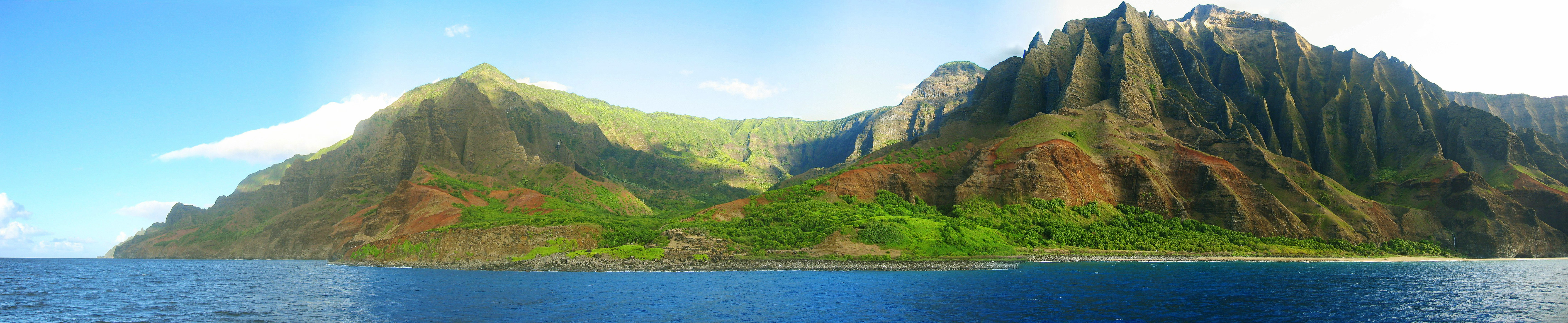 Photo of Kaui mountains taken by me.